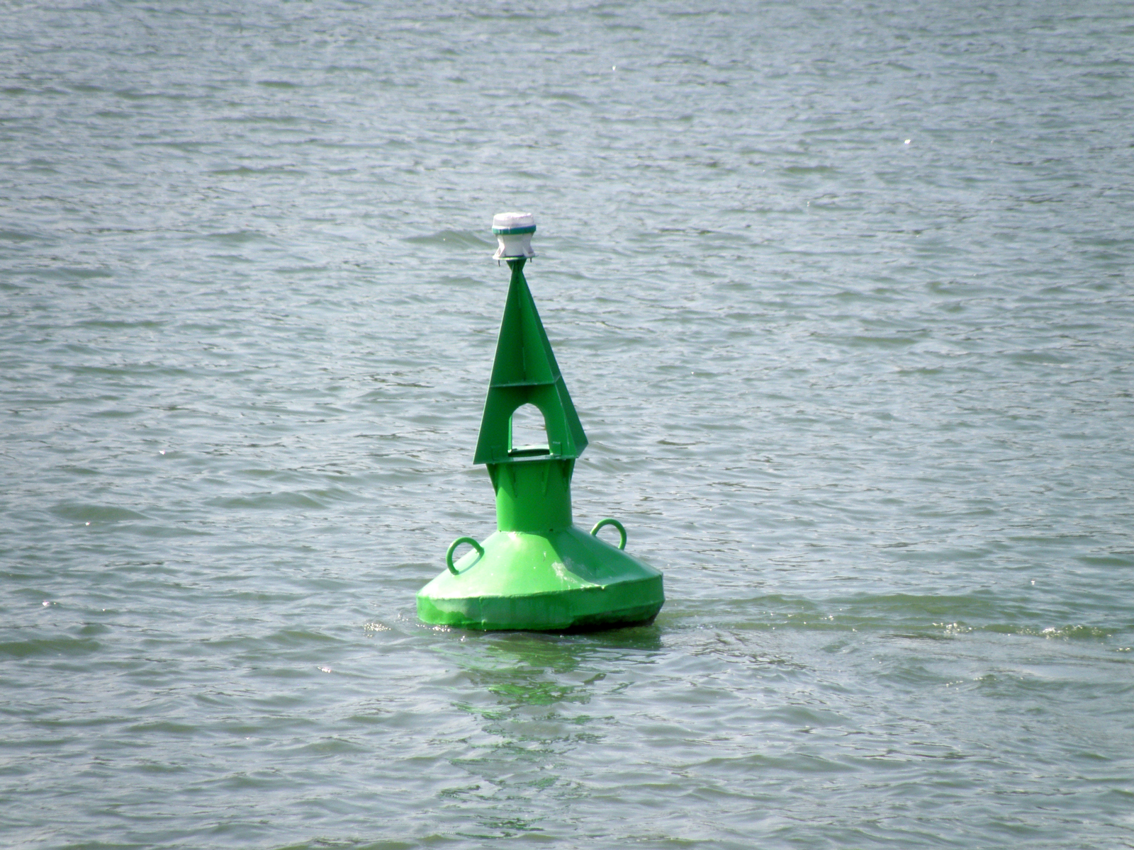 Marking